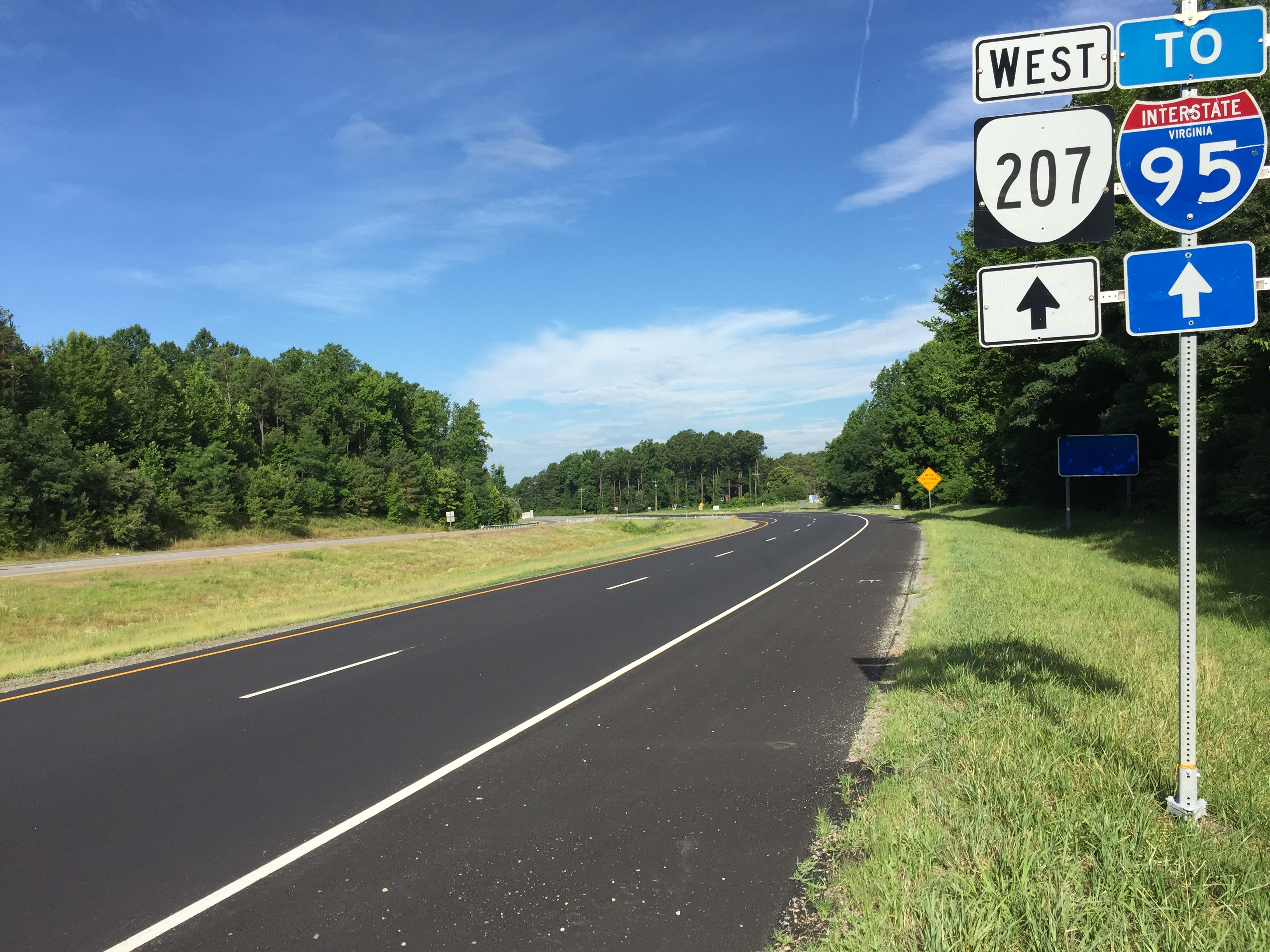 View west along Virginia State Route 207 (Bowling Green Bypass) at Virginia State Route 207 Business (Broaddus Avenue) in Milford, Caroline County, Virginia